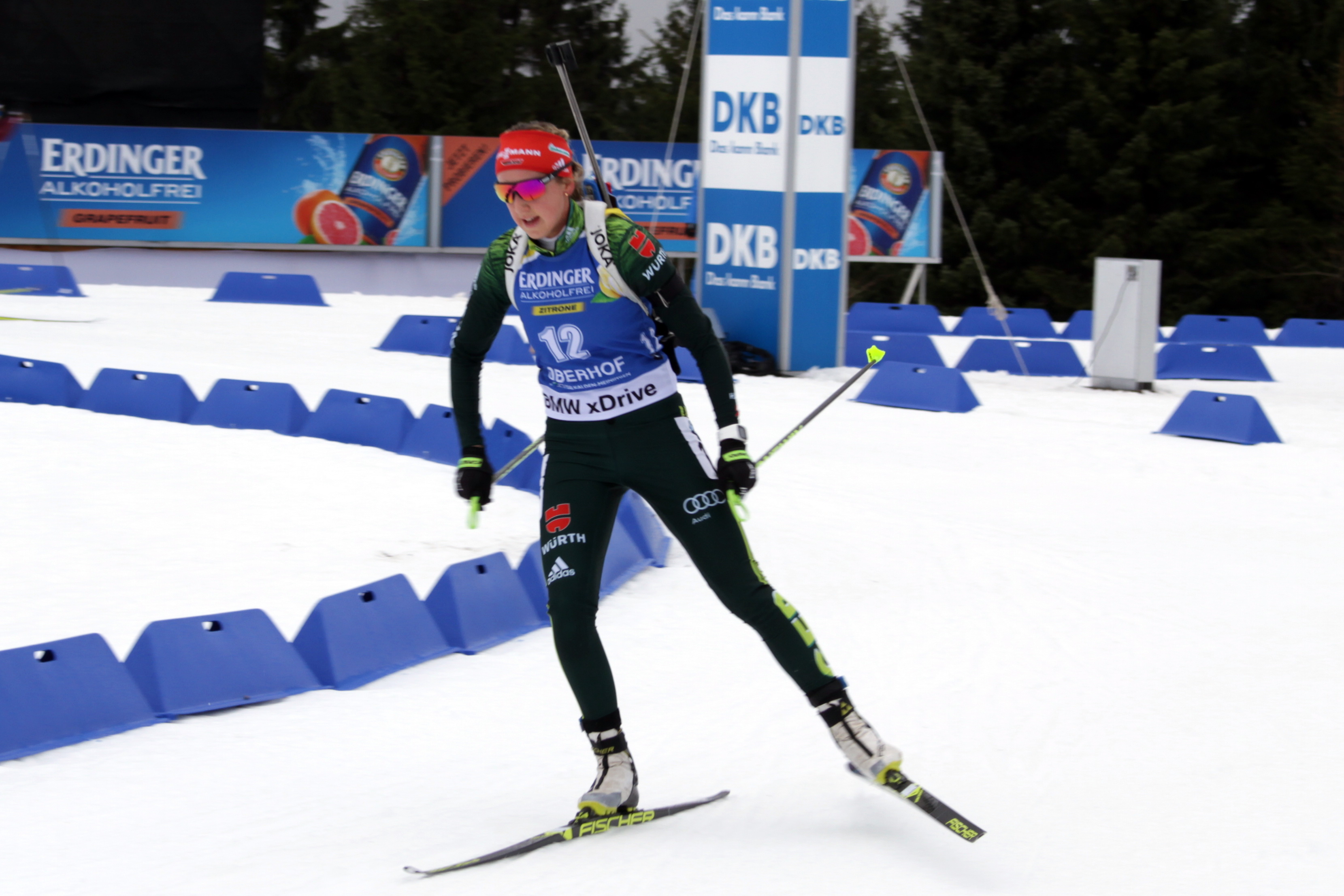 2018 Oberhof Biathlon World Cup - Pursuit Women